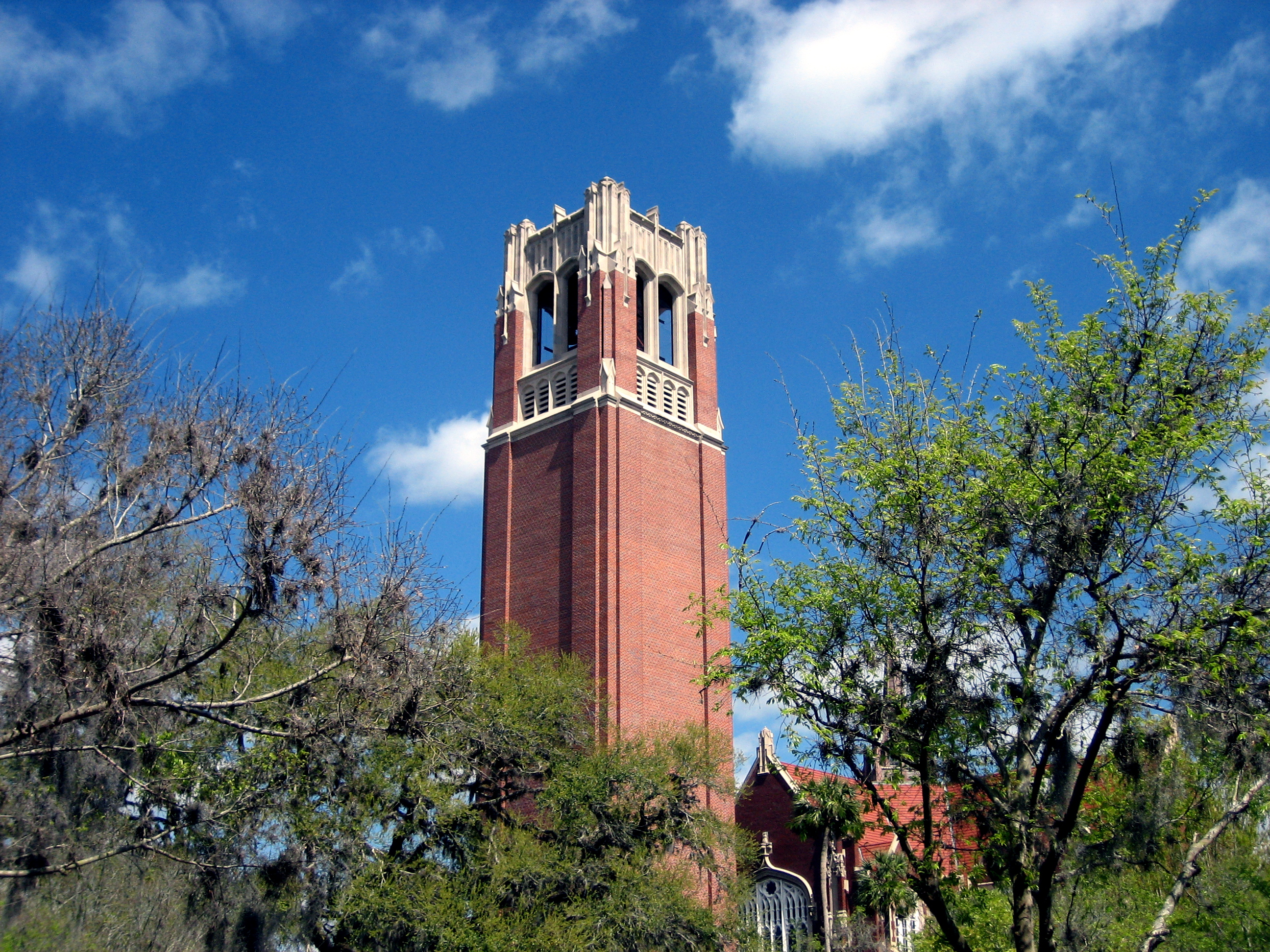 Century Tower as seen from CISE and Marston.